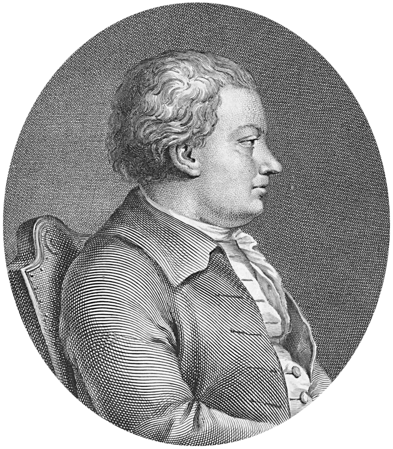 Illustration of Anders Jahan Retzius (1742-1821)